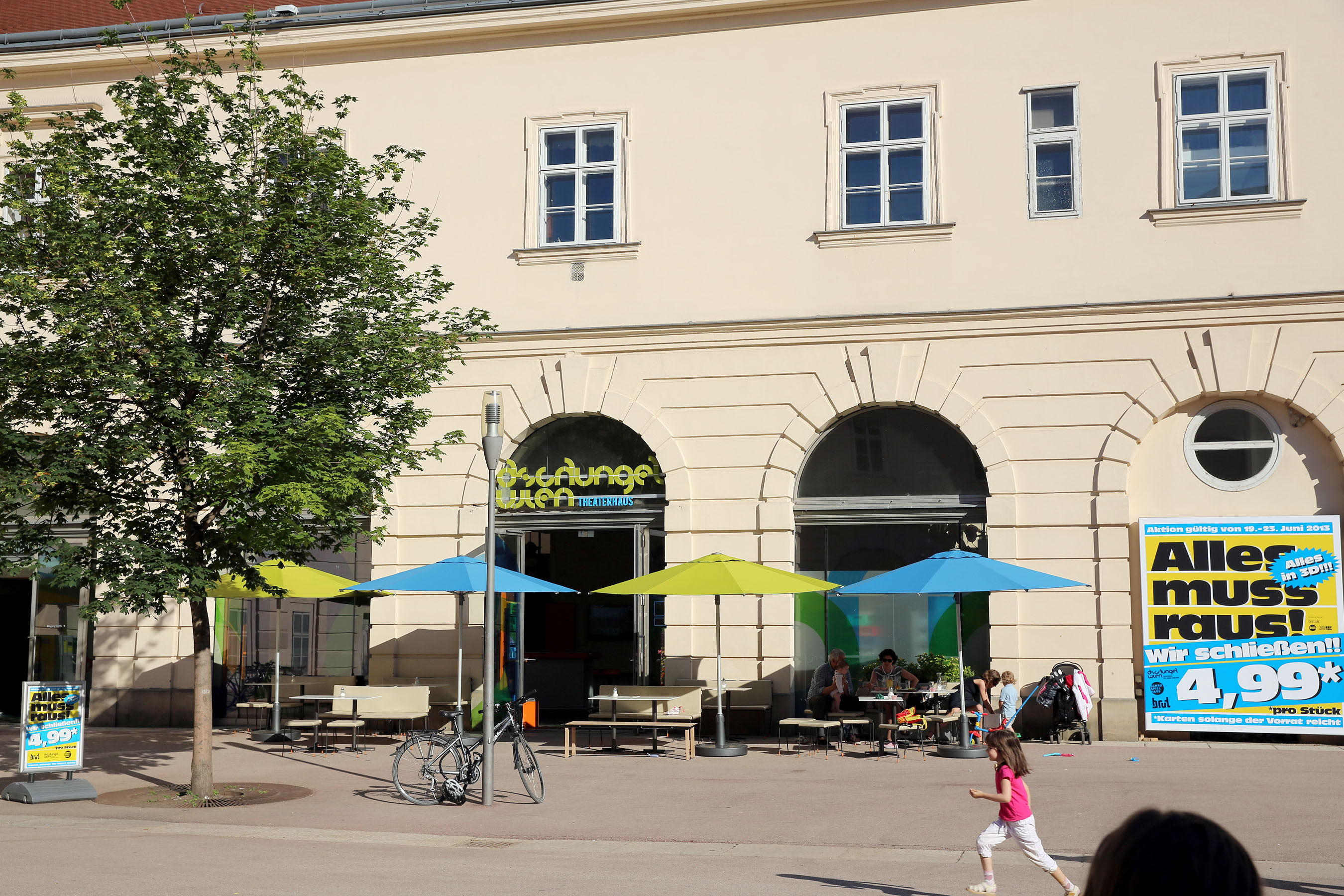 Dschungel Wien – Theatre for Young Audience at Museumsquartier (Vienna, Austria).